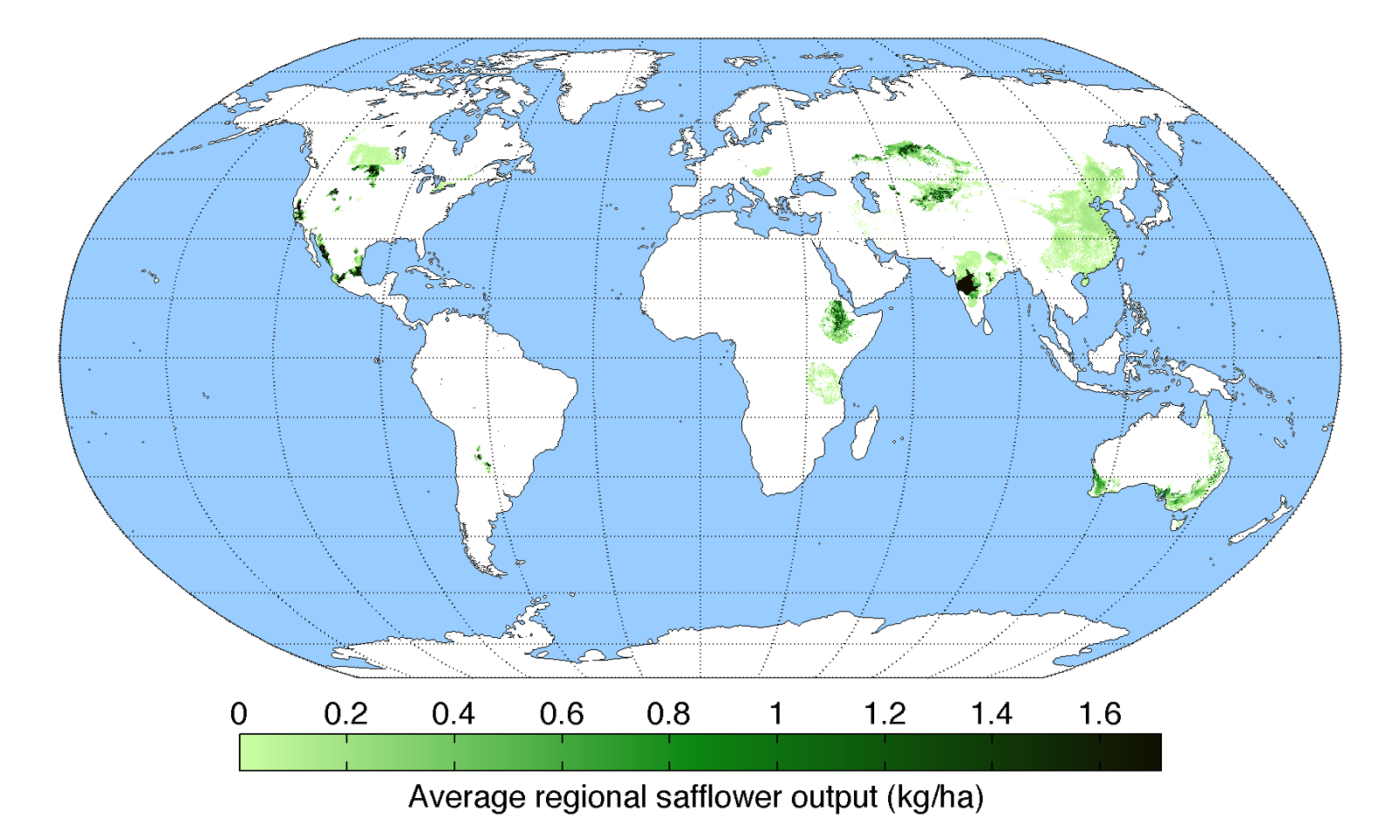 Map of safflower production (average percentage of land used for its production times average yield in each grid cell) across the world compiled by the University of Minnesota Institute on the Environment with data from: Monfreda, C., N. Ramankutty, and J.A. Foley. 2008. Farming the planet: 2. Geographic distribution of crop areas, yields, physiological types, and net primary production in the year 2000. Global Biogeochemical Cycles 22: GB1022